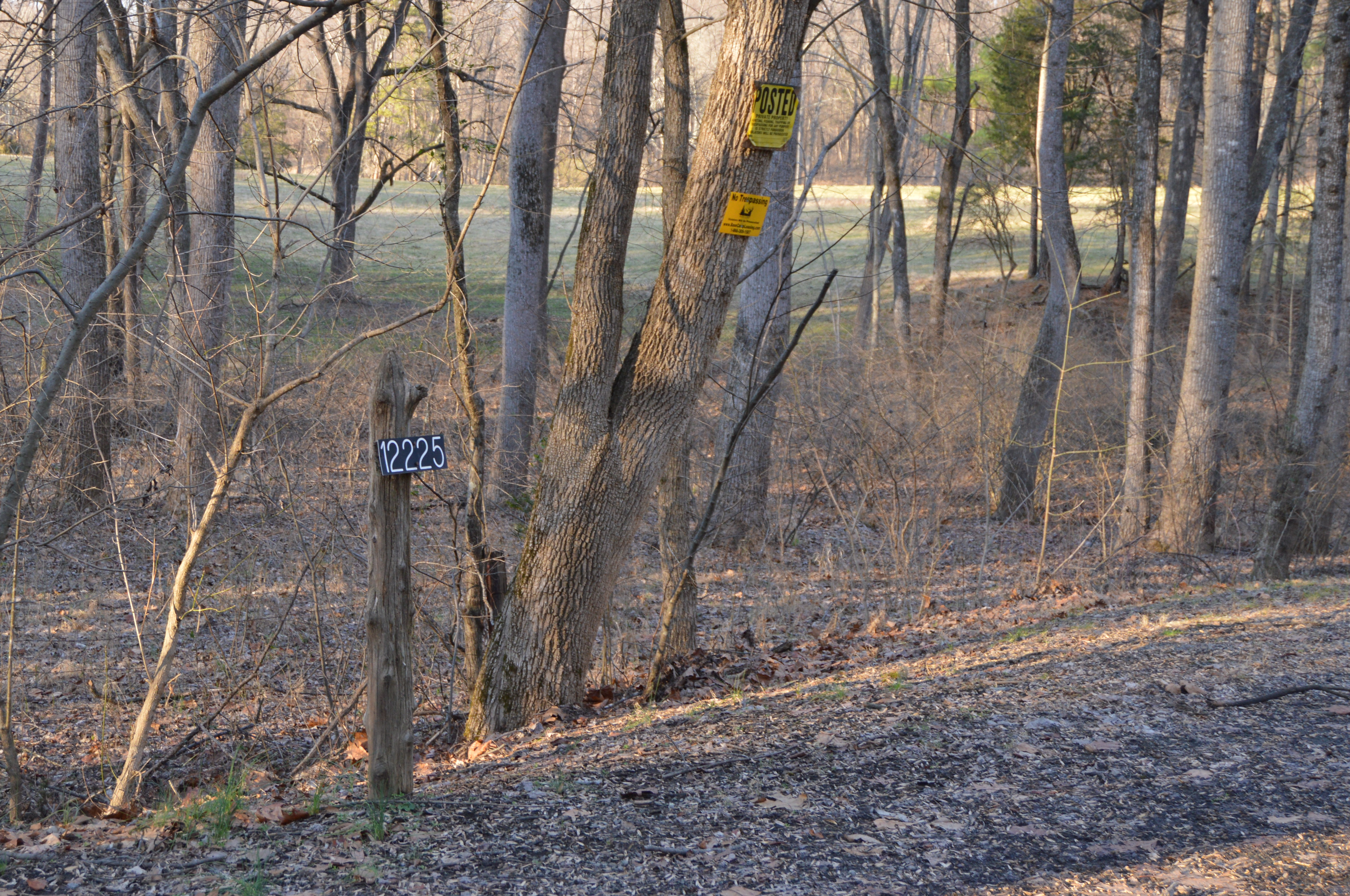 Entrance to the Rockwood property, located at 12225 Chicken Mountain Road northwest of Gordonsville in Orange County, Virginia, United States. The estate is listed on the National Register of Historic Places.